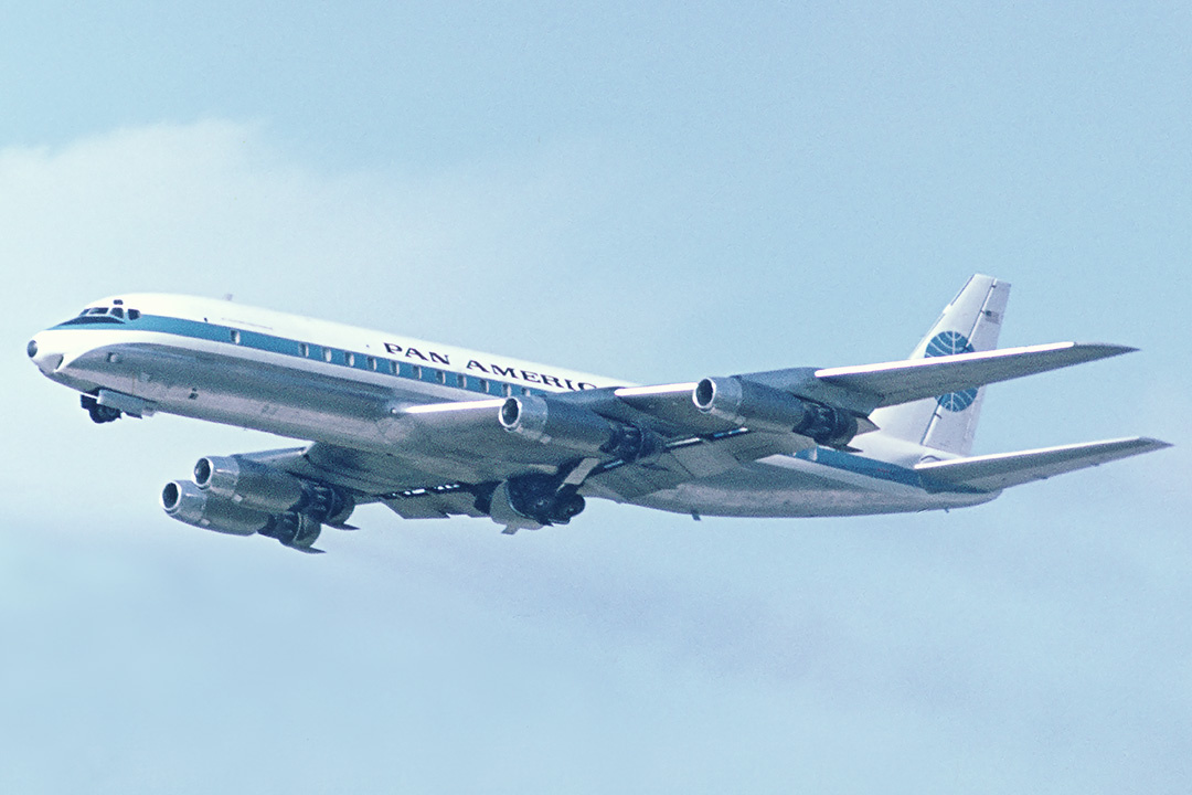 Pan American World Airways Douglas DC-8-33 N805PA at Stockholm-Arlanda Airport